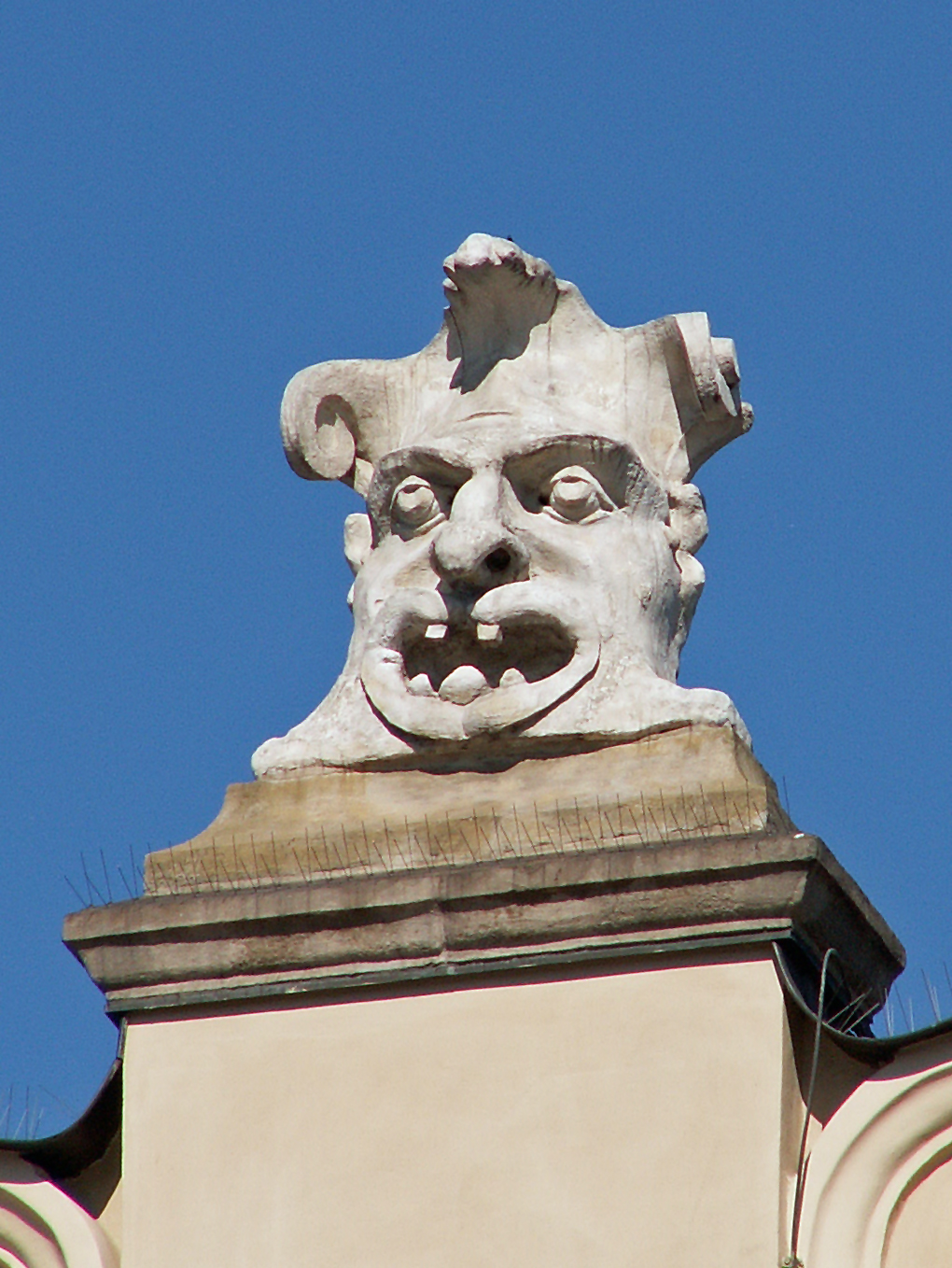 Mascaron (a), 1558 desig. by Santi Gucci, Sukiennice, 3 Main Market square, Old Town, Krakow, Poland